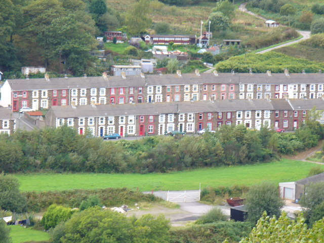 Miners' Rows, Senghenydd. Two parallel rows of former miners' cottages seen from the hill east of the village. Note the colour facings around doors and windows. The rows follow the contour lines in this narrow and steep-sided valley.